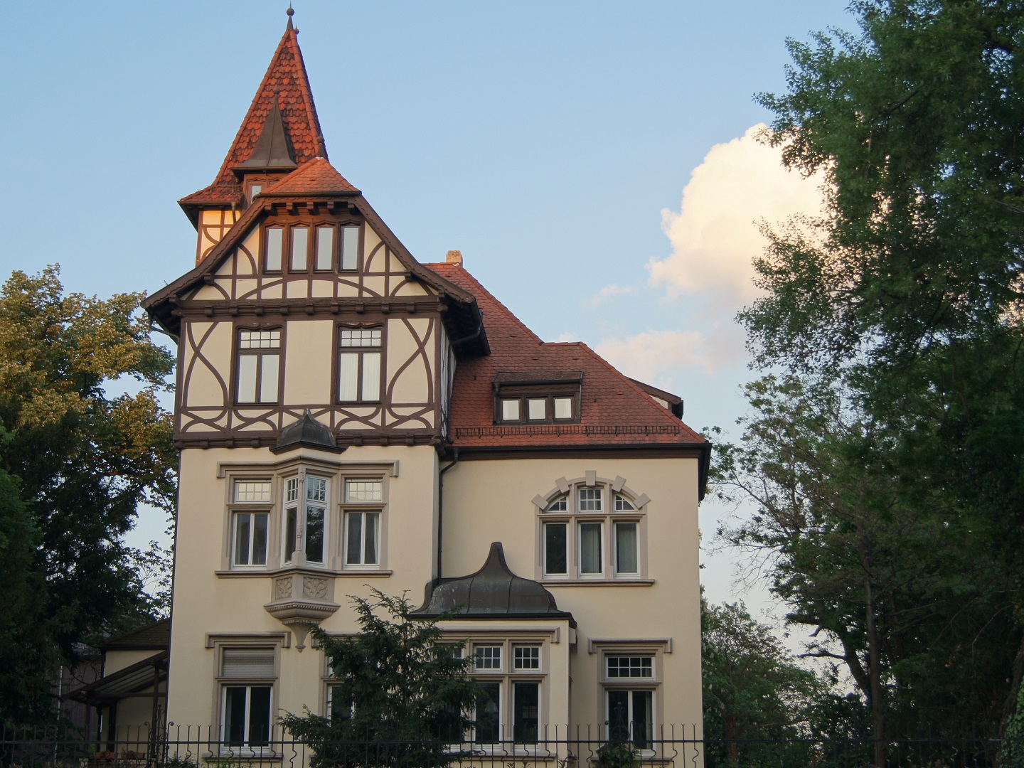 Mahlastrasse 21, Frankenthal; villa